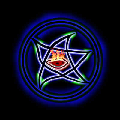 Elder Sign as described by August Derleth in The Lurker at the Threshold except that the eye is hardly flaming and it is inscribed in a circle. Like my other Elder Sign, created expressly for Wikipedia.